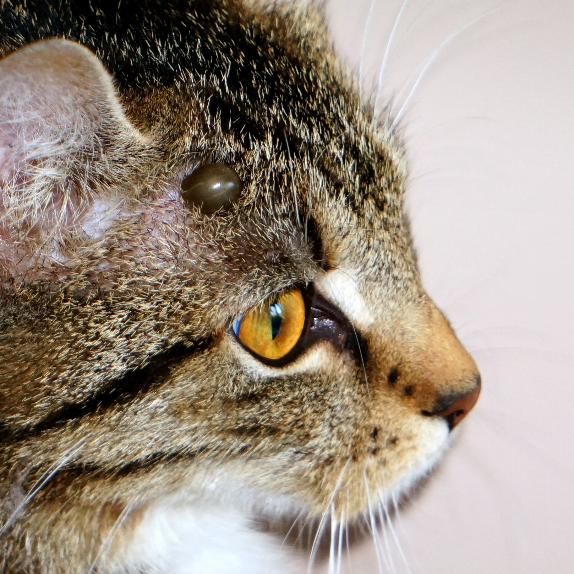 An engorged tick on the head of a cat.